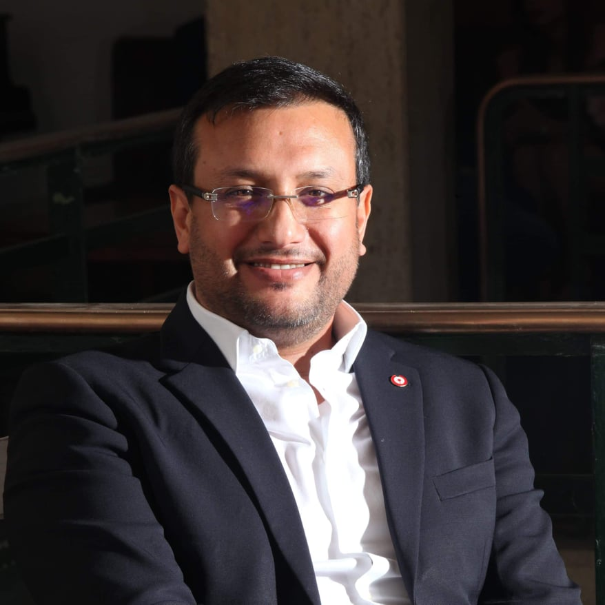 Picture of Nizar Chaari